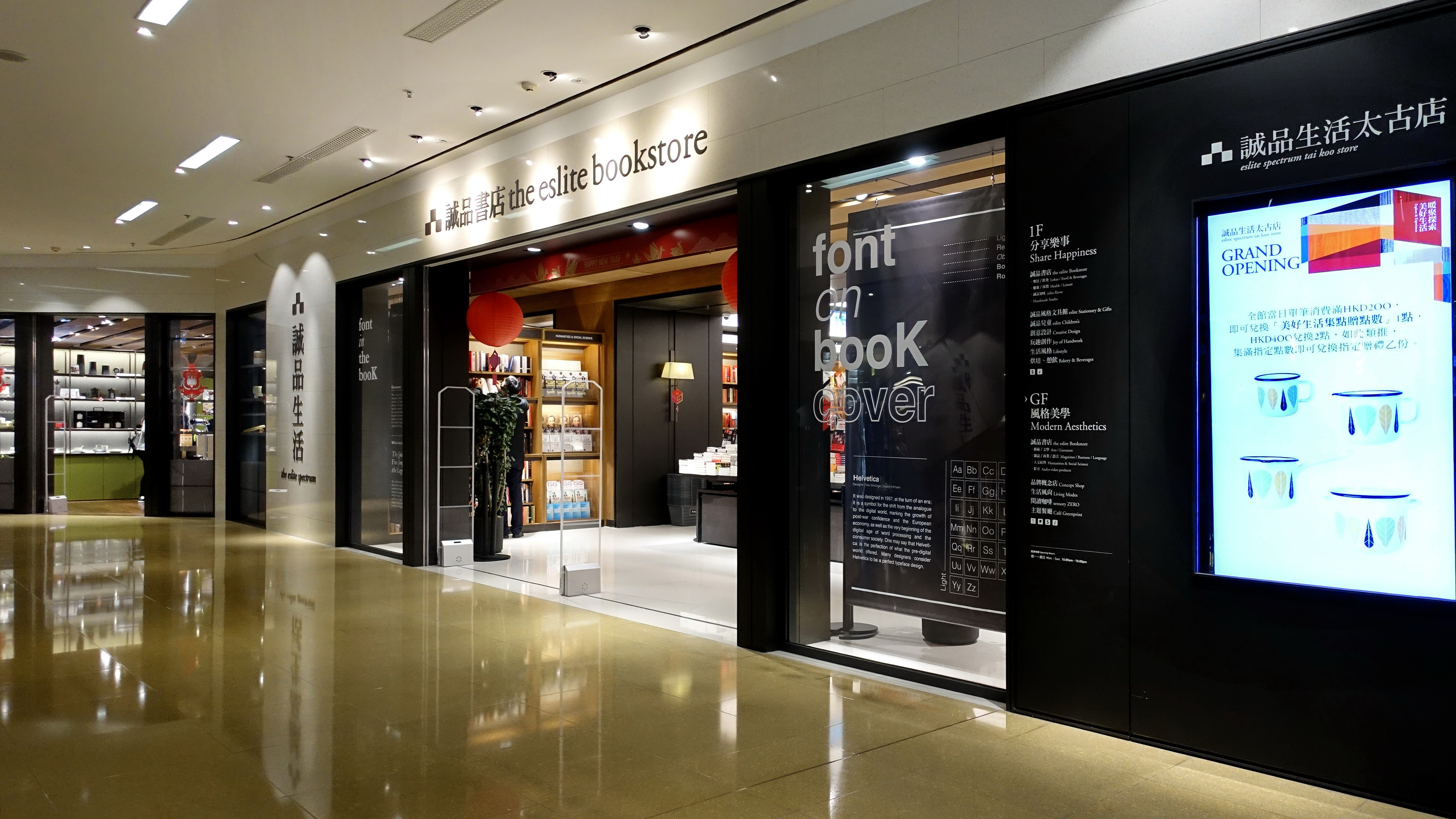 Eslite Spectrum Tai Koo Store, Hong Kong.